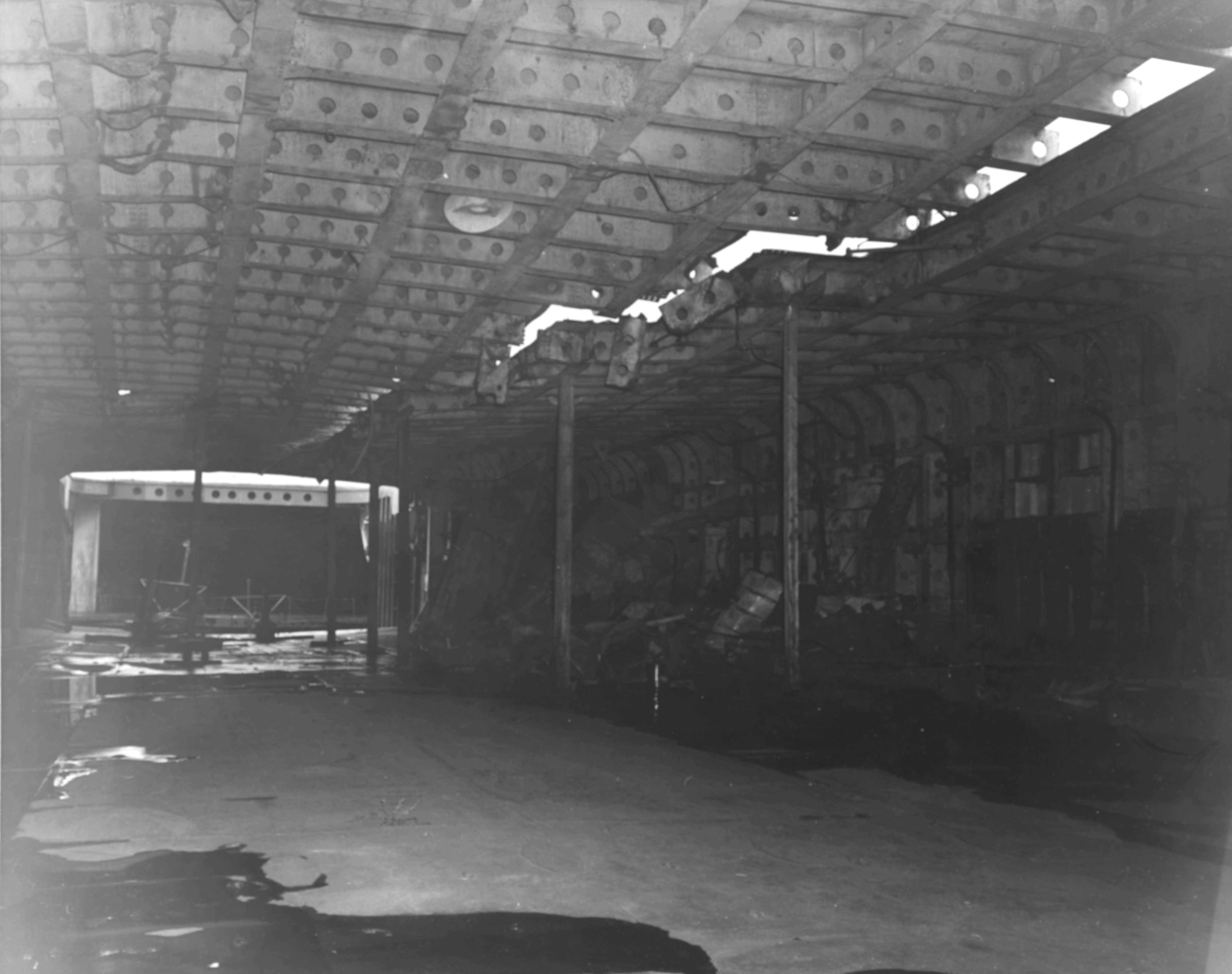 View of the hangar deck of the Japanese aircraft carrier Ryūhō, looking forward, at Kure, Japan, on 9 October 1945. Note the crack in the flight deck.